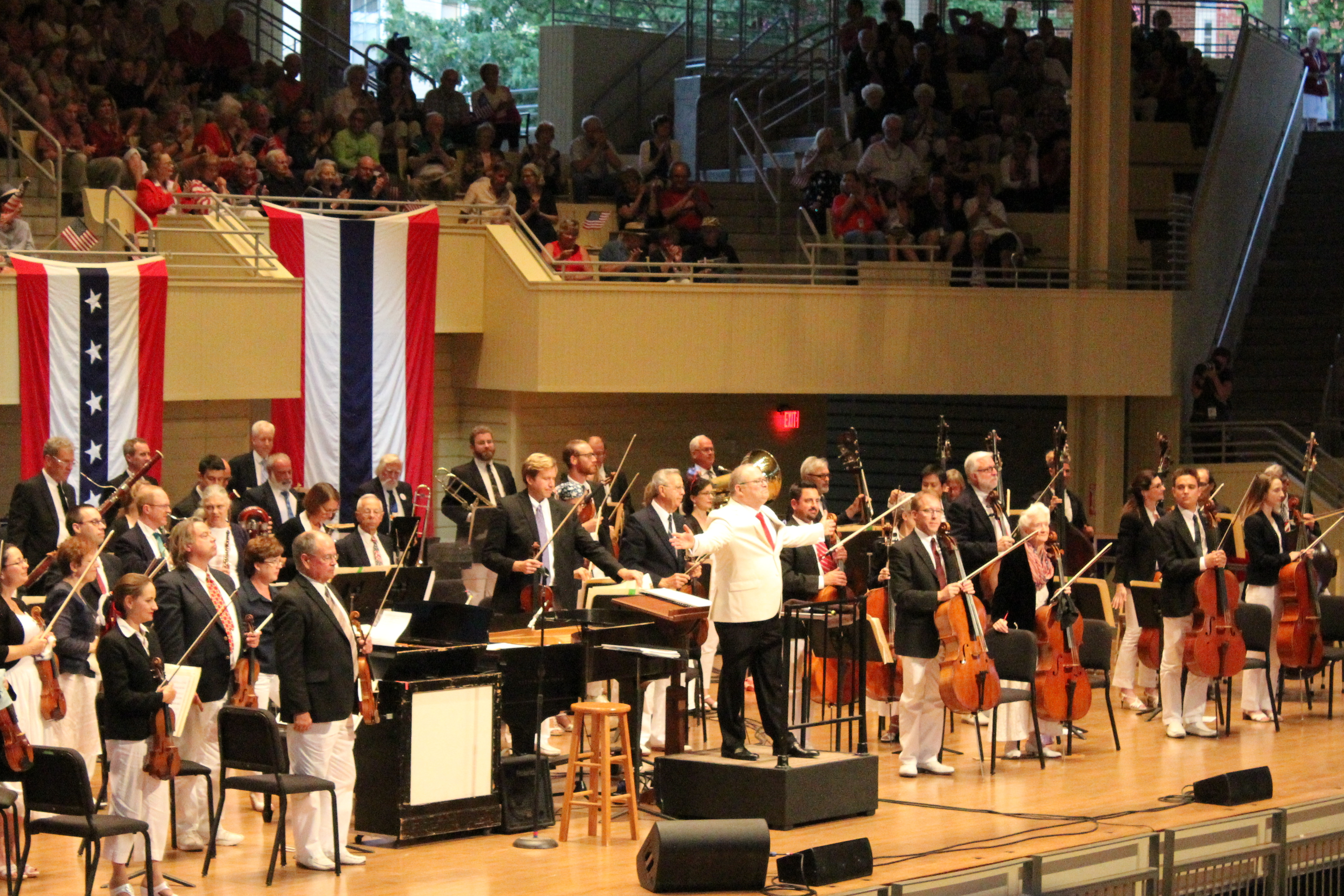 Conductor Stuart Chafetz and the Chautauqua Symphony Orchestra on the fourth of July, 2017